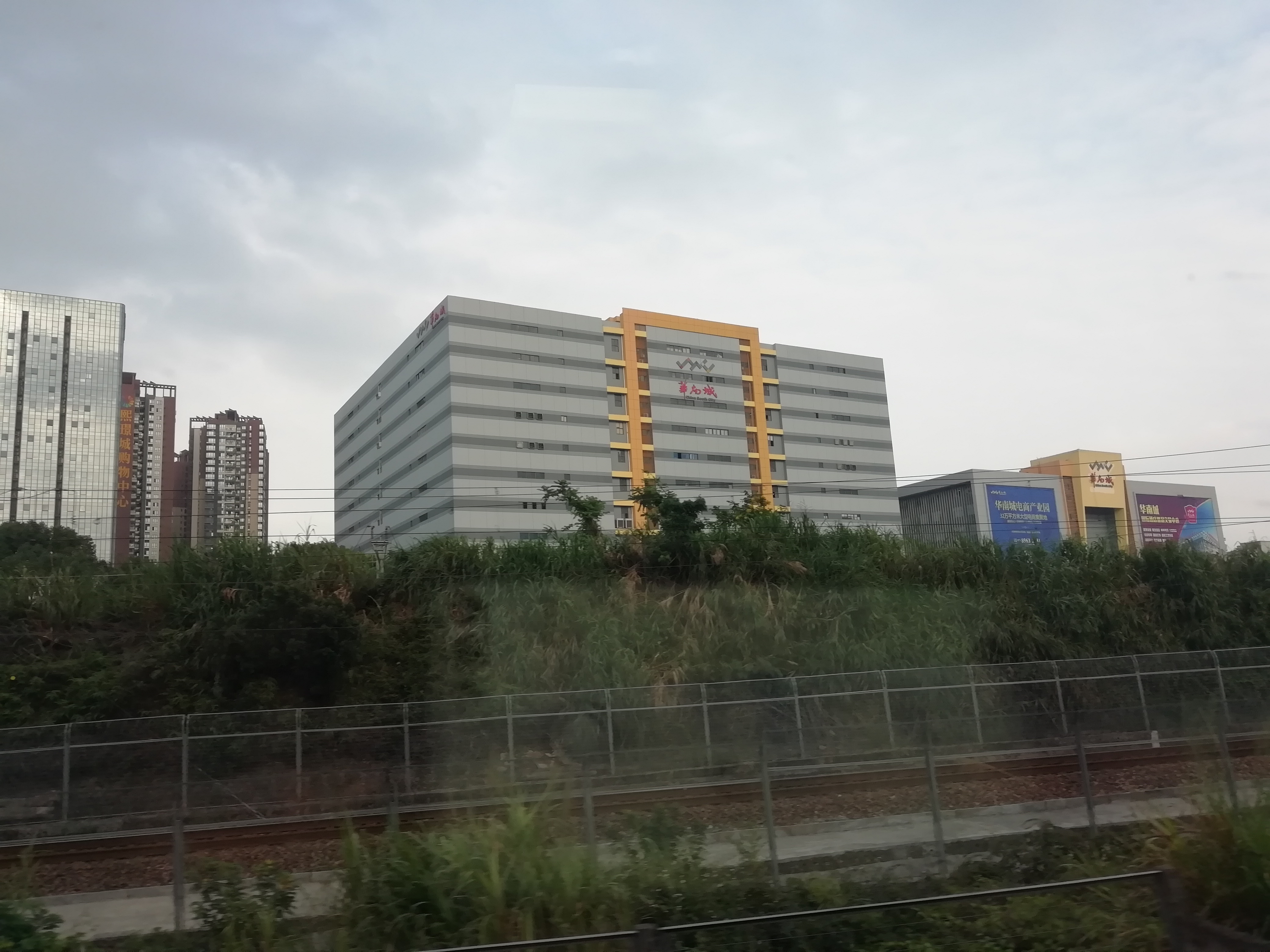 China South City, located in Pinghu, Shenzhen. 中文（中国大陆）: 深圳平湖华南城